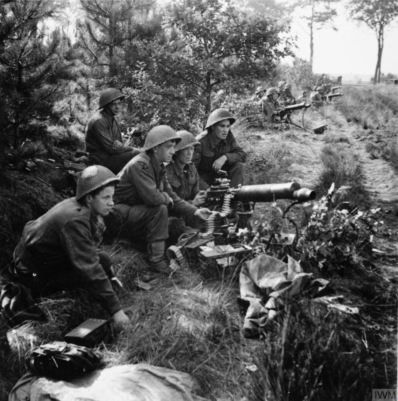 Vickers machine-guns of 2nd Middlesex Regiment, 3rd Division, fire in support of troops crossing the Maas-Schelde Canal at Lille-St. Hubert (St Huilbrechts), 20 September 1944. Two interesting features are that the troops are wearing MK III British "Turtle" helmets, which were introduced shortly before D-Day. Additionally, the gunners are firing at long-range targets, as shown by the extreme elevation of the barrels.